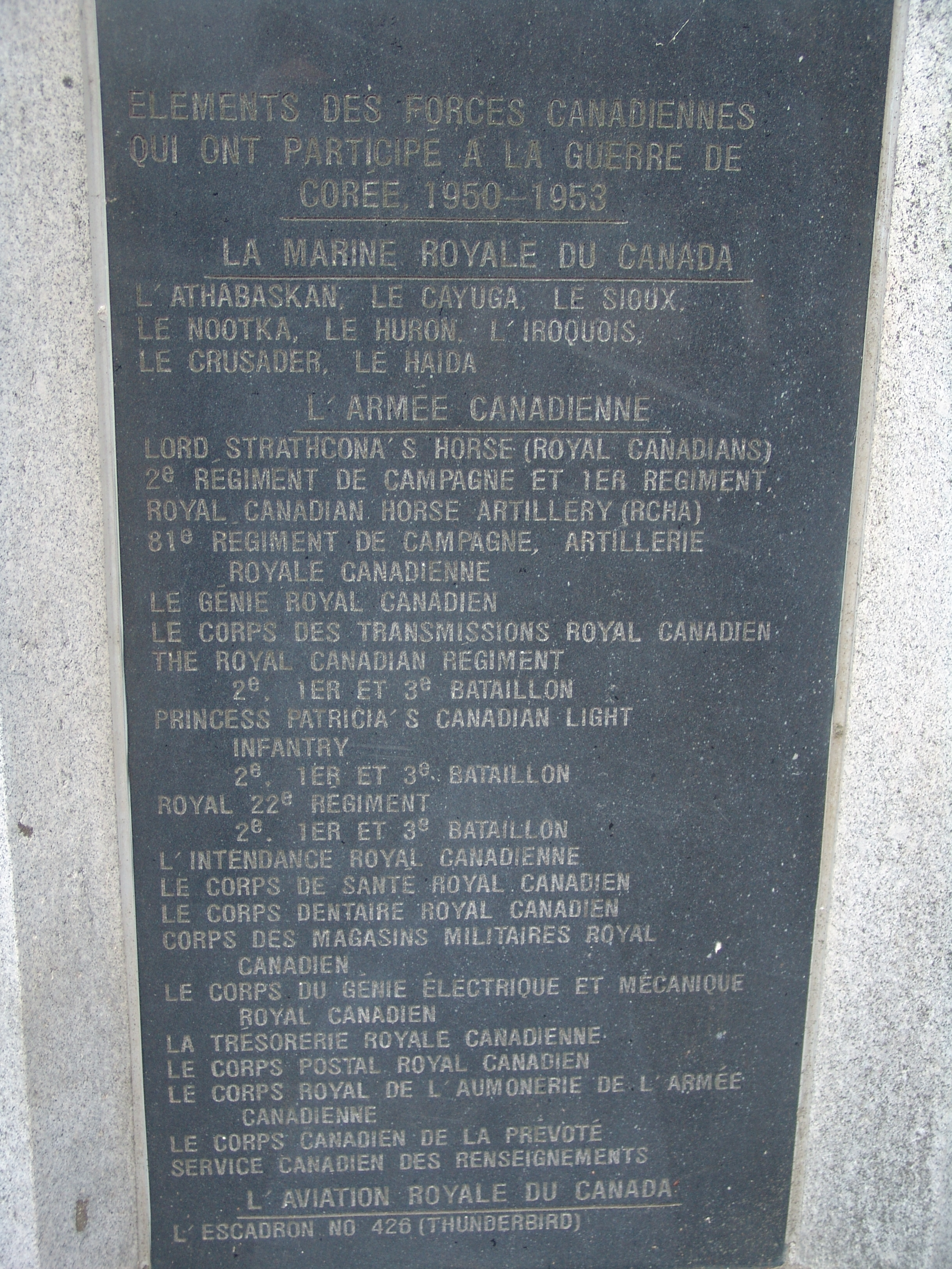 The right panel of the second monument to the Canadian contribution during the Korean War at the Gapyeong Canada Monument. I took the picture.